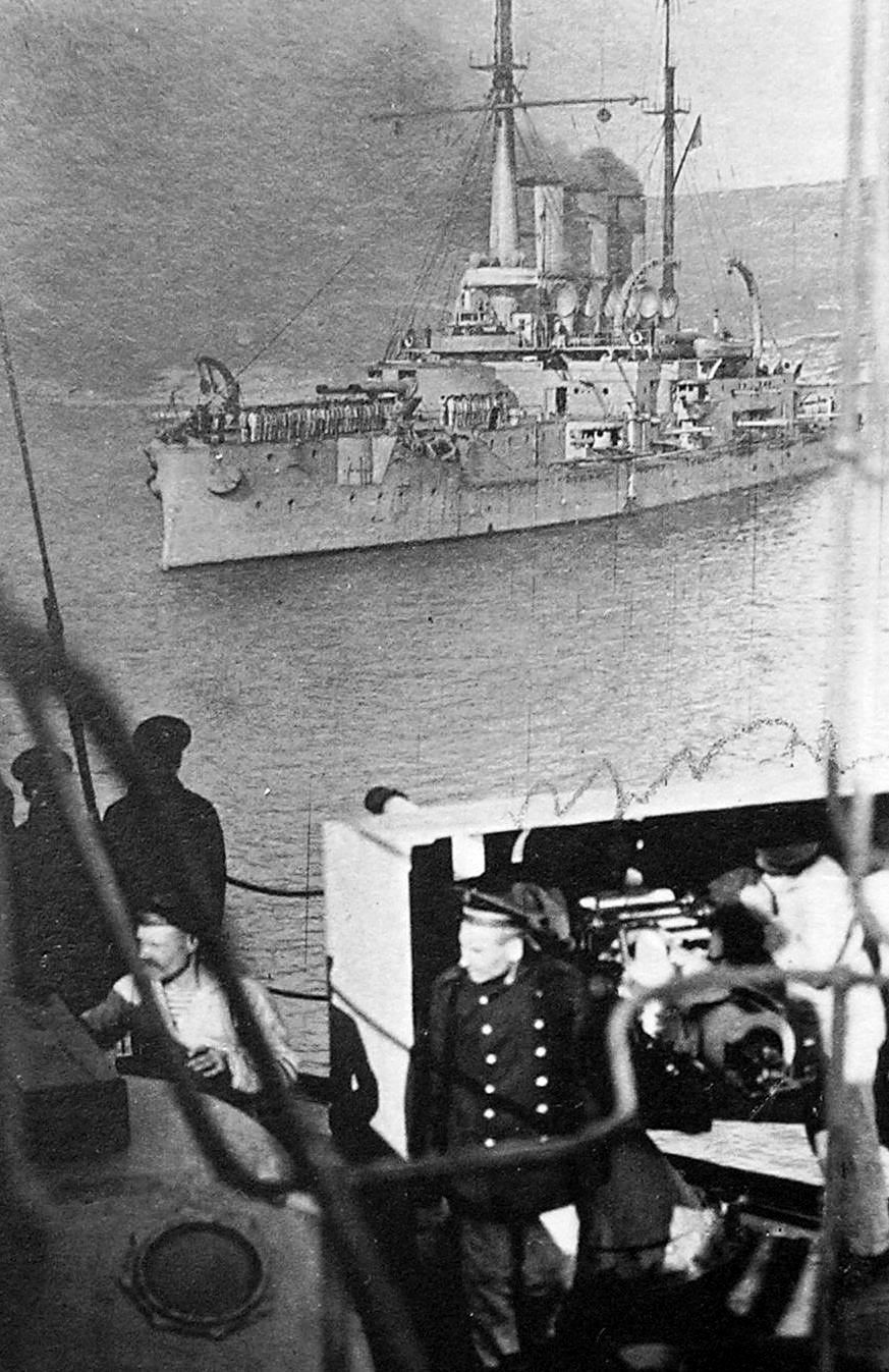 The Imperial Russian battleship «Panteleimon» from battleship «Ioann Zlatoust», 1915-1916.